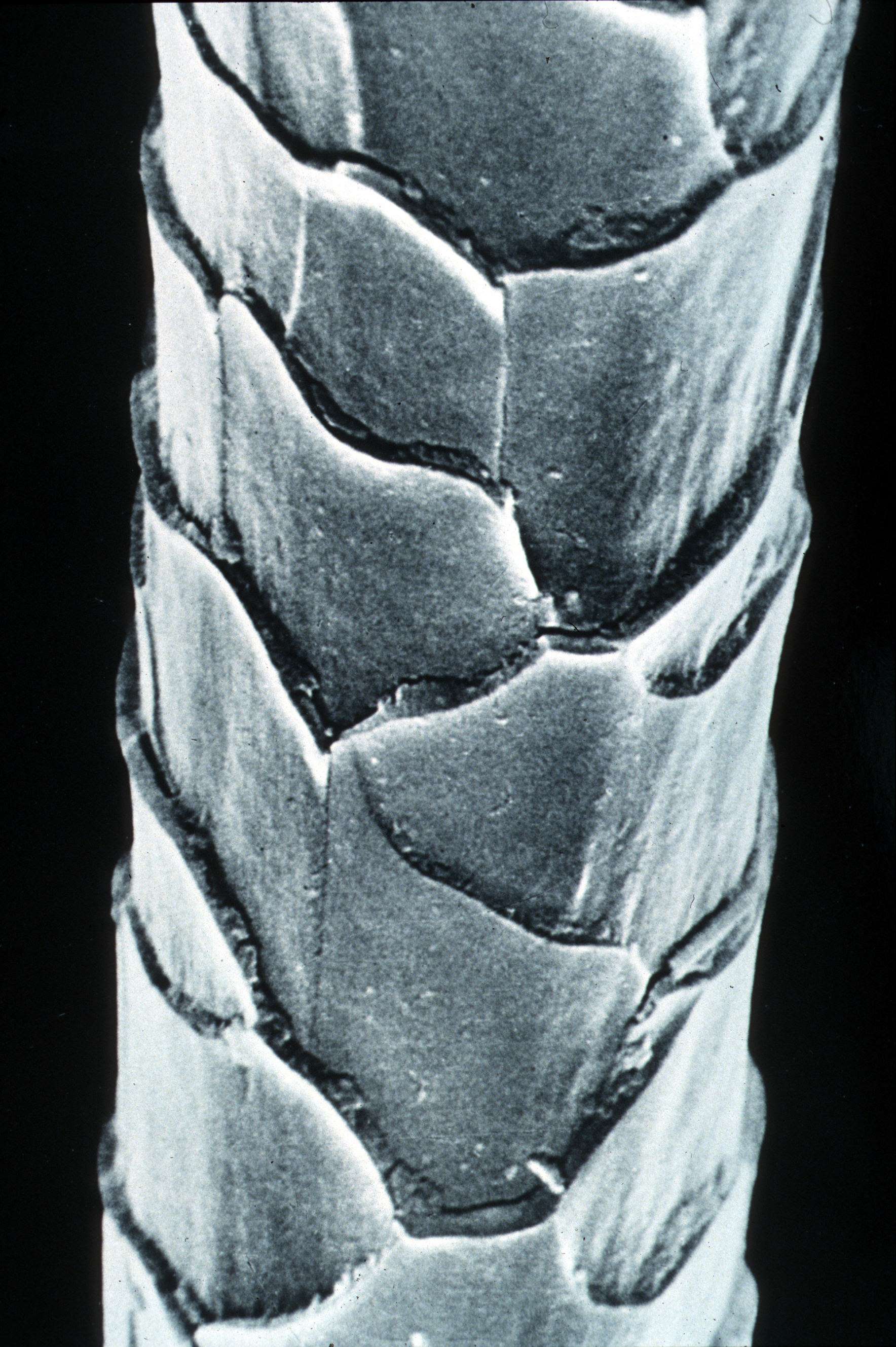 Electron micrograph of a clean merino wool fibre